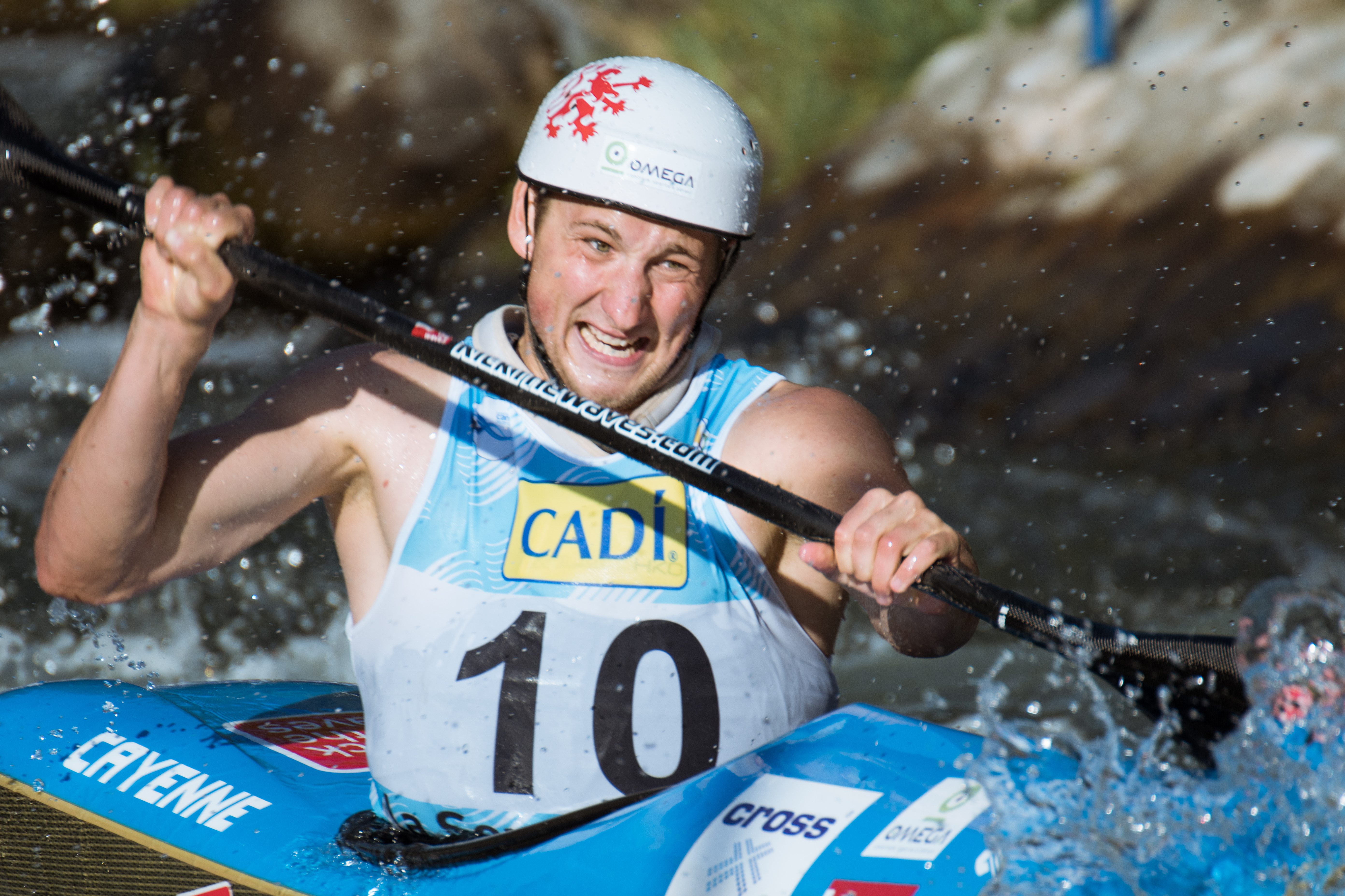 Filip Hric during the 2019 Canoe Wildwater World Championships in La Seu d'Urgell, Spain.